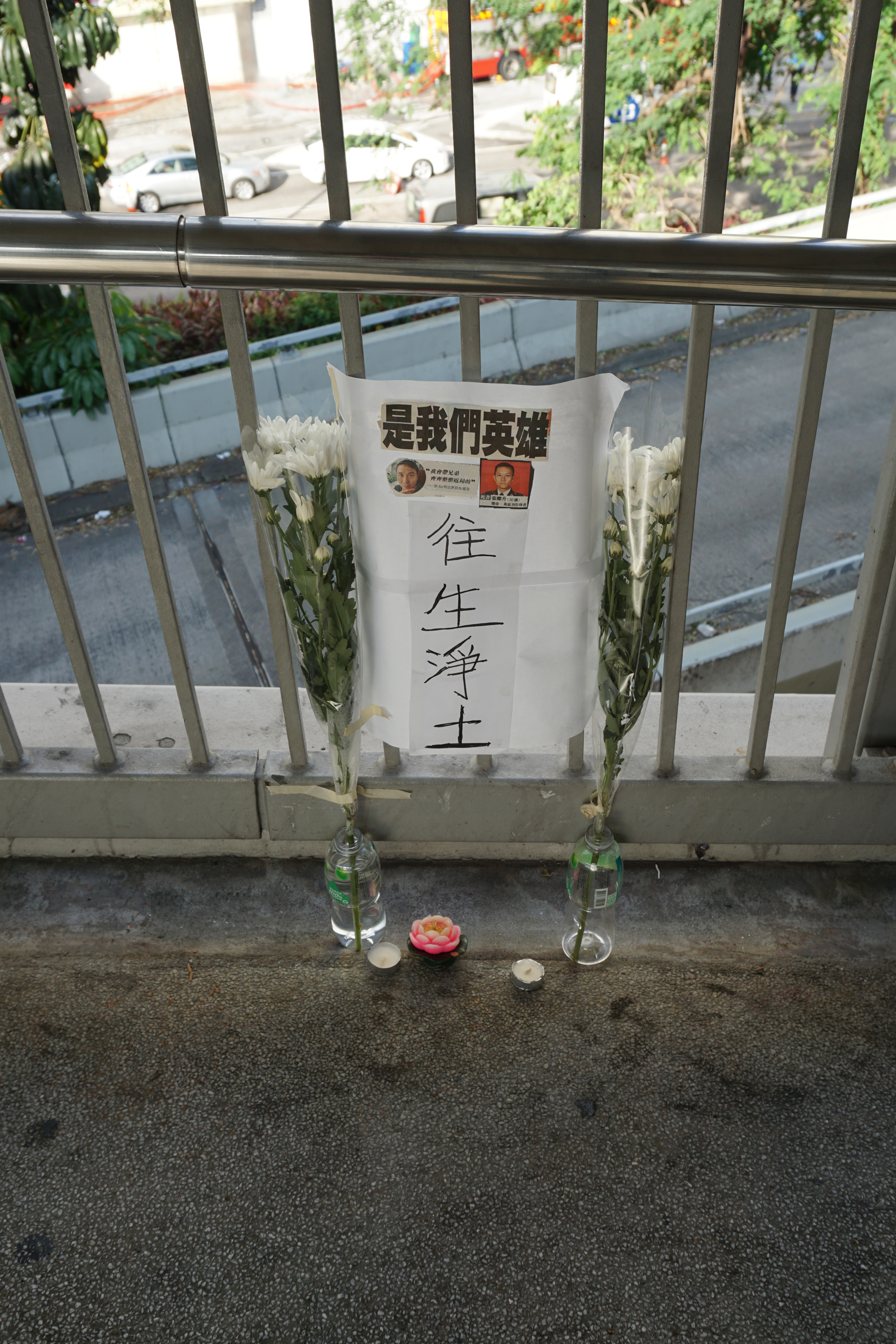 Amoycan Industrial Centre in Kowloon Bay, Hong Kong.